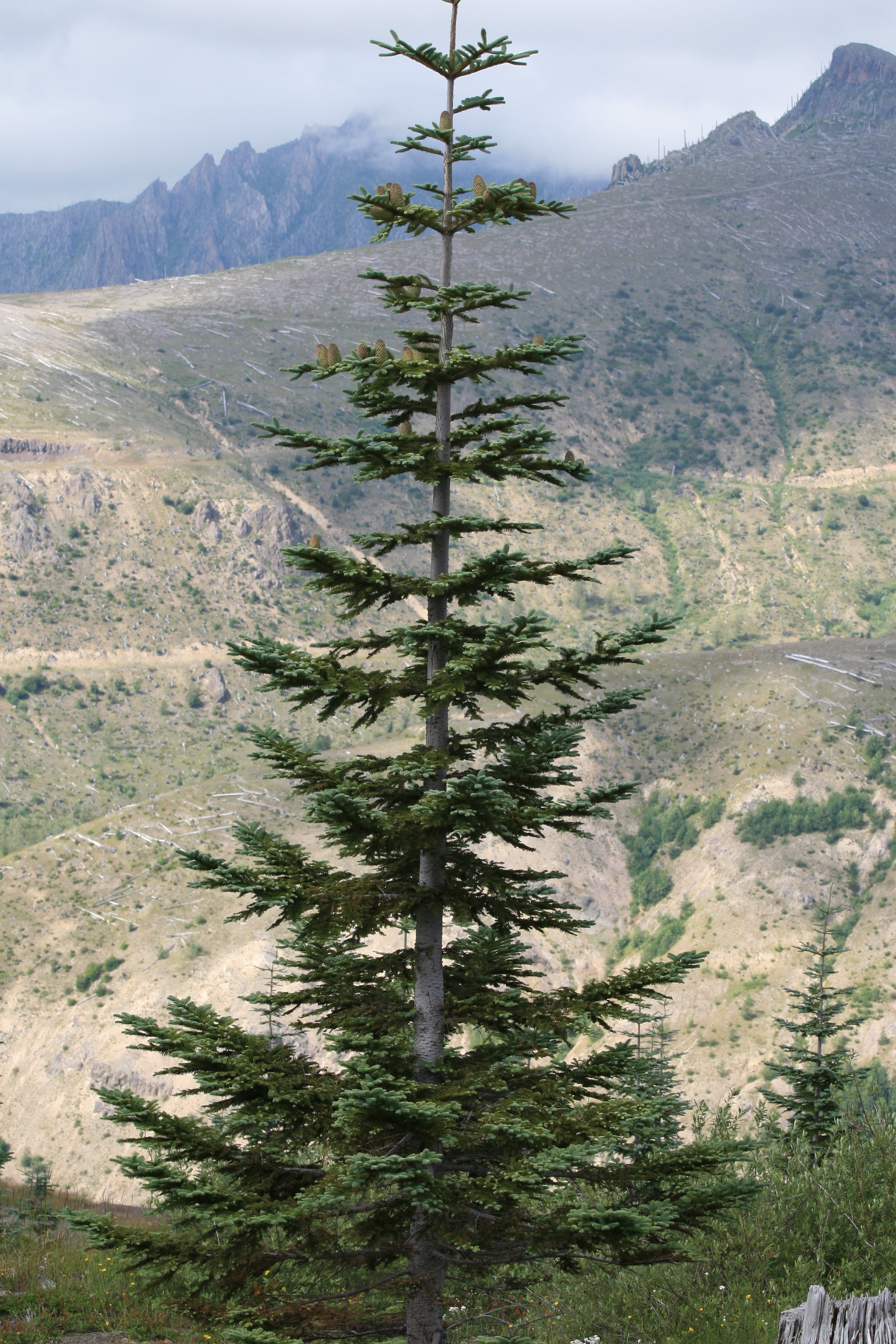 Young Abies procera growing on volcanic devastated area, Mount St Helens, Washington, USA.